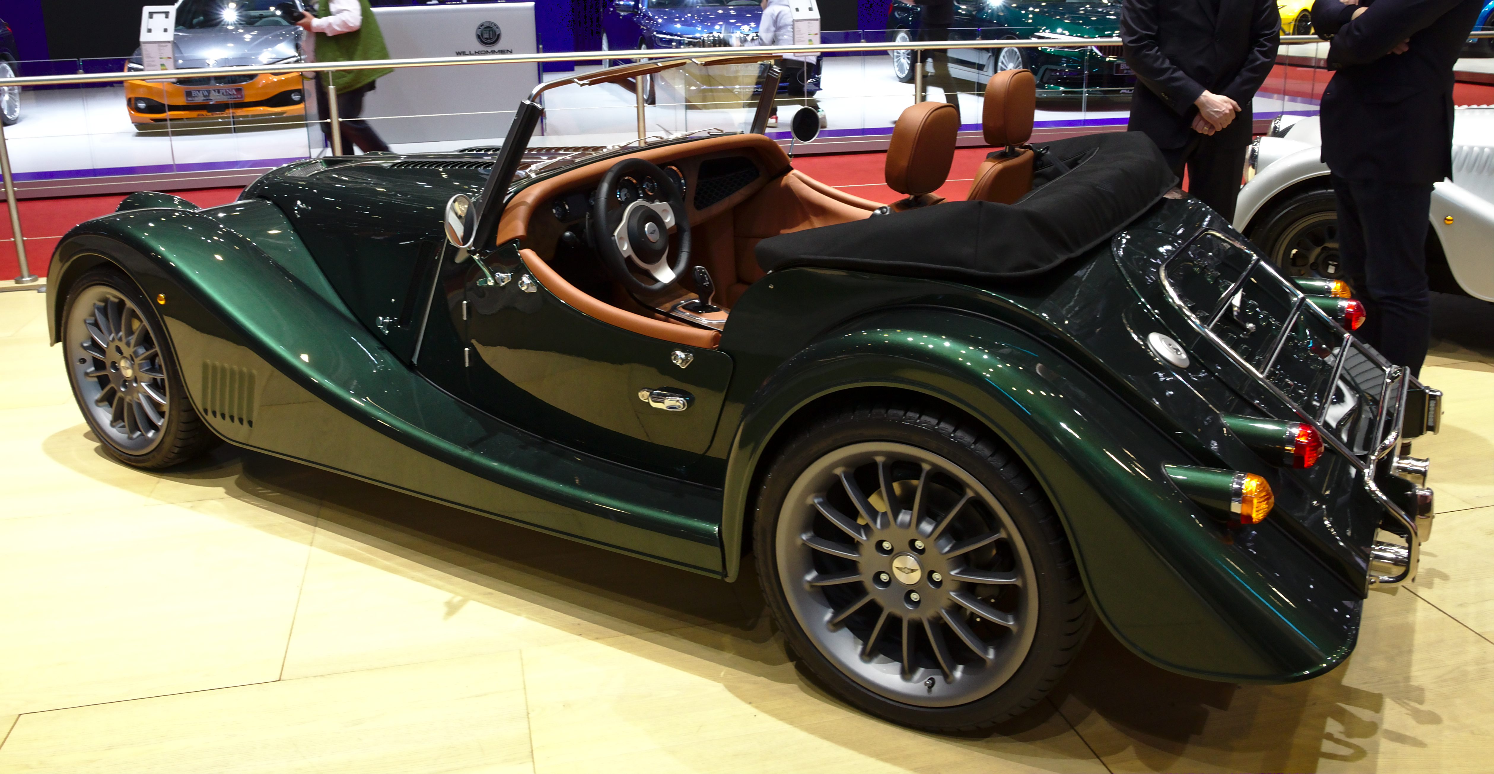 Morgan Plus 6 at Geneva Motor Show 2019